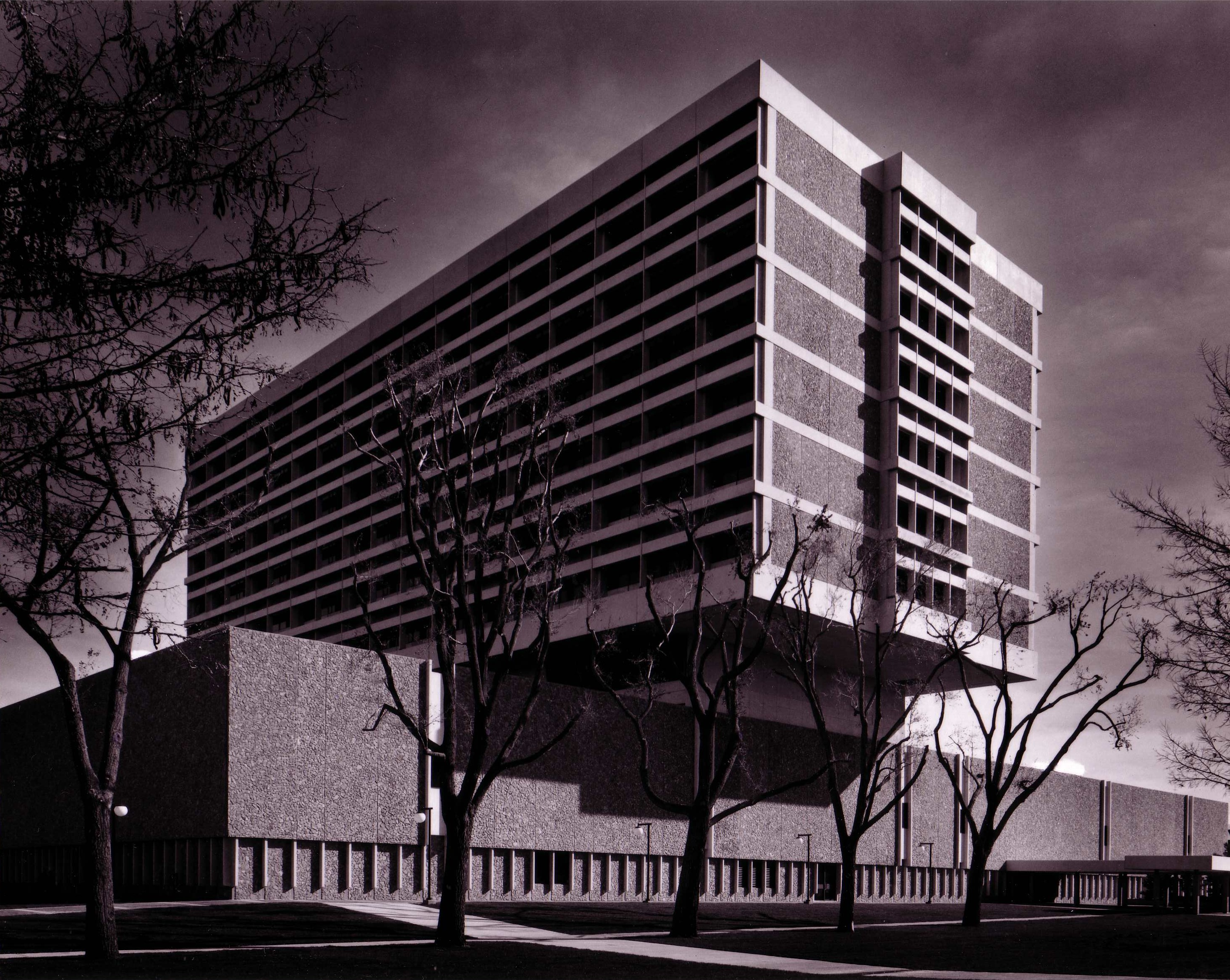 Denver General Hospital, designed by Eugene Sternberg